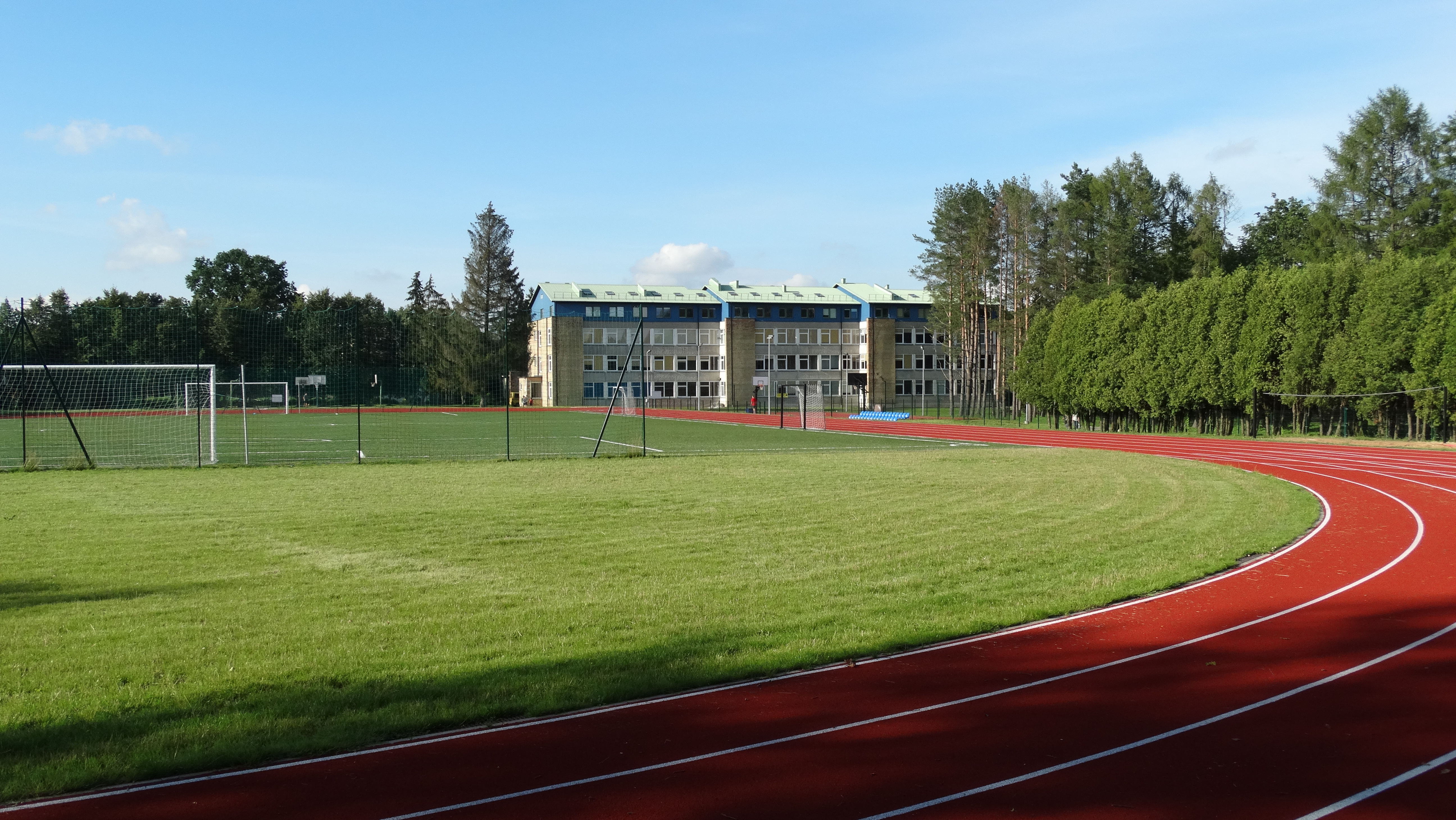 Ugnė Karvelis Gymnasium, Akademija, Kaunas district, Lithuania